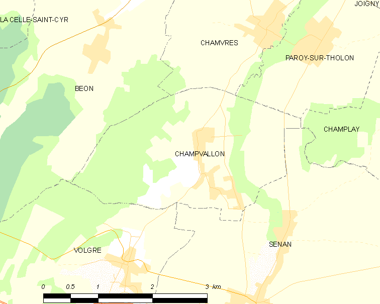 Map of French municipality Champvallon